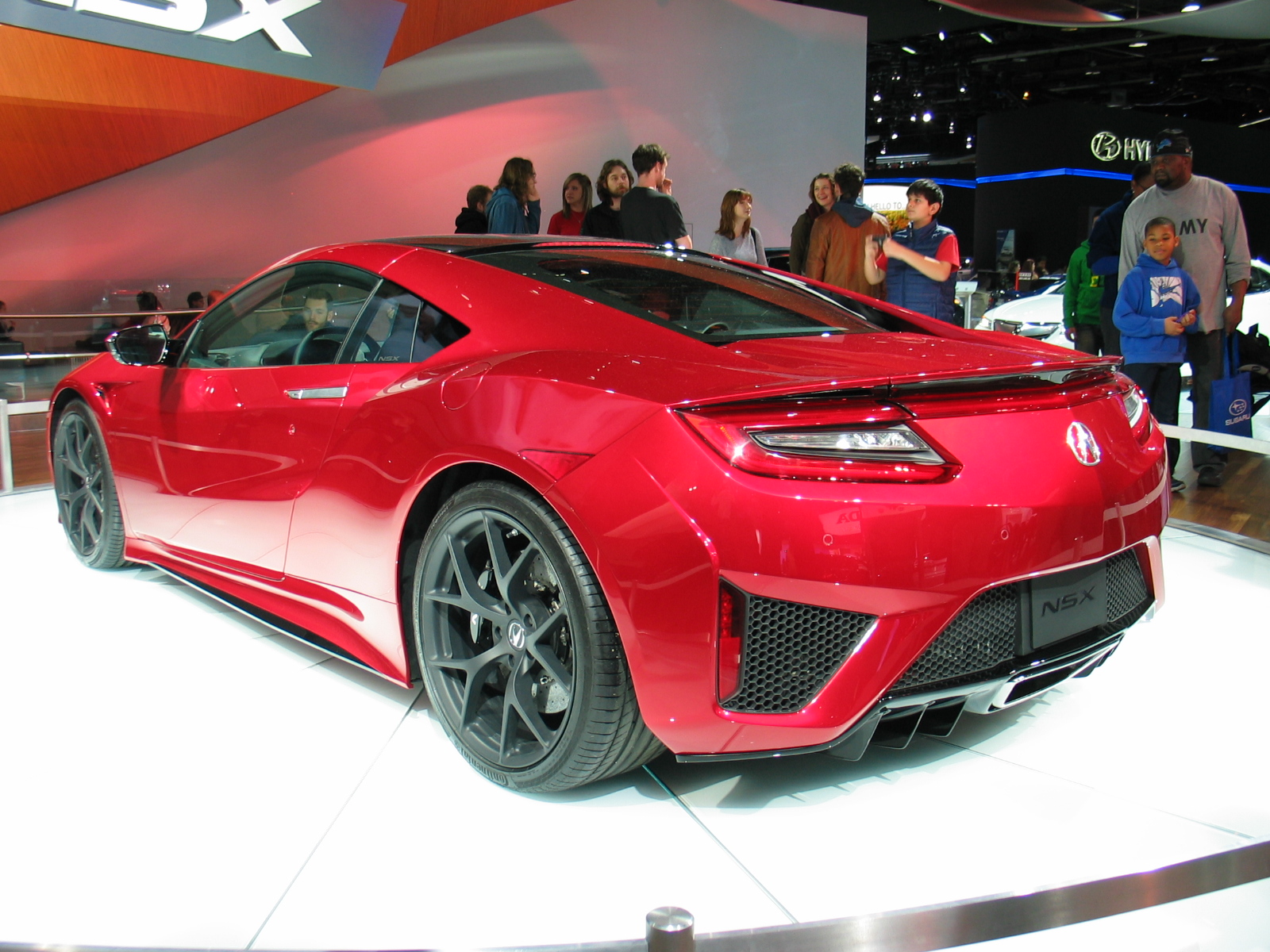 2016 Acura NSX rear